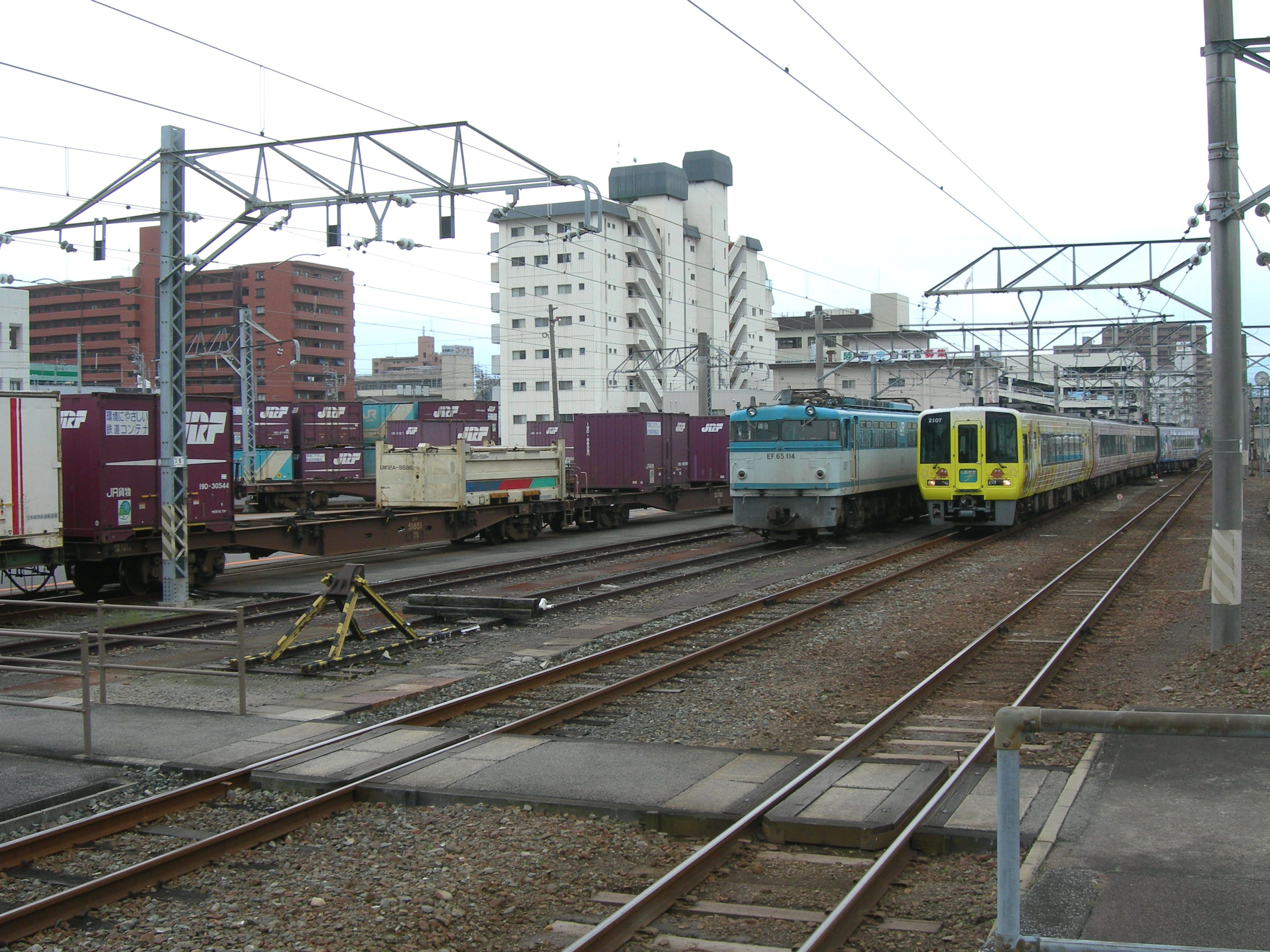 JR Freight Matsuyama Station on Yosan Line